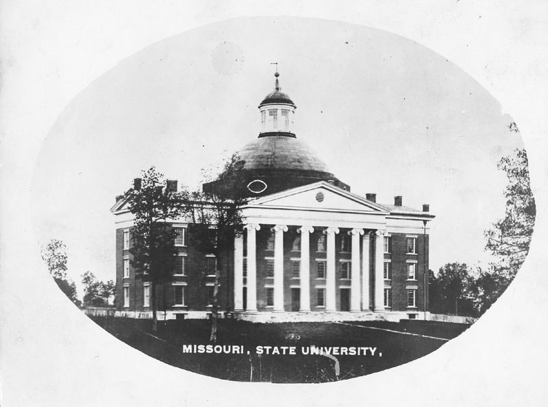 Academic Hall at the University of Missouri, prior to the 1885 expansion